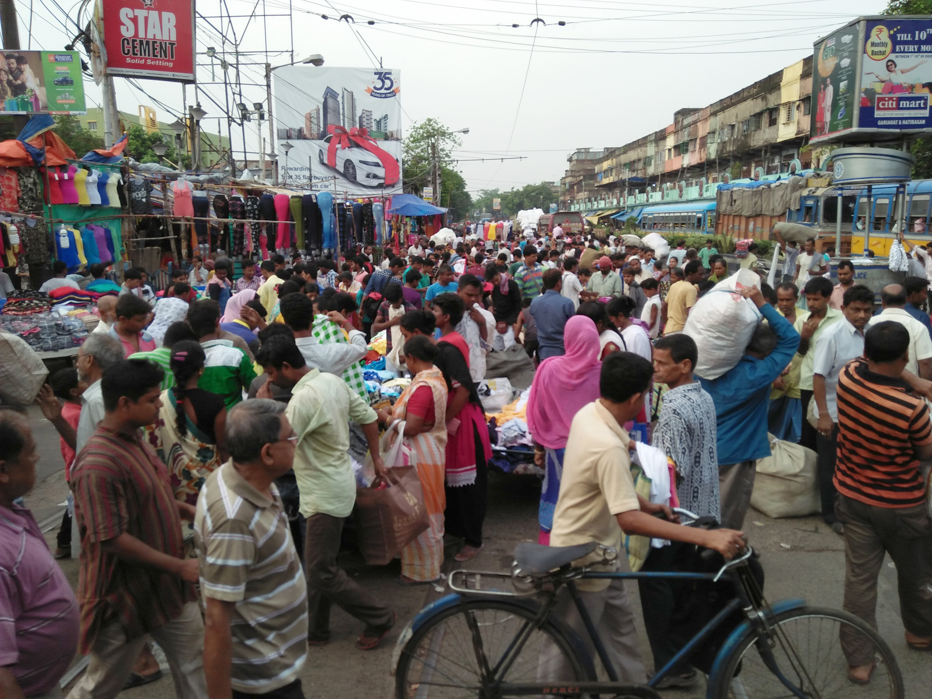 This photograph was taken in Kolkata.